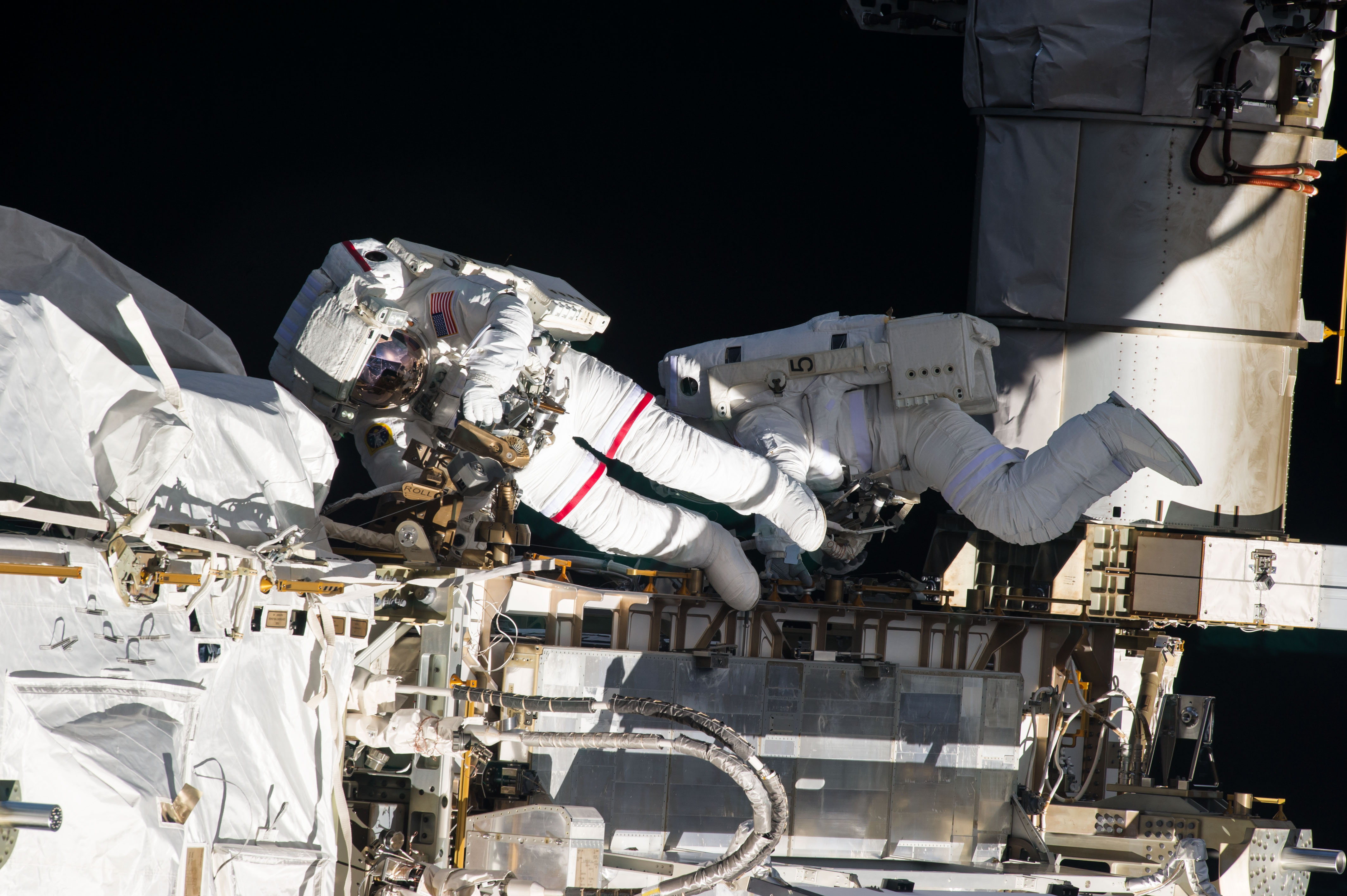 Expedition 35 Flight Engineers Chris Cassidy (left) and Tom Marshburn completed a space walk at 2:14 p.m. EDT May 11 to inspect and replace a pump controller box on the International Space Station's far port truss (P6) leaking ammonia coolant. The two NASA astronauts began the 5-hour, 30-minute space walk at 8:44 a.m.